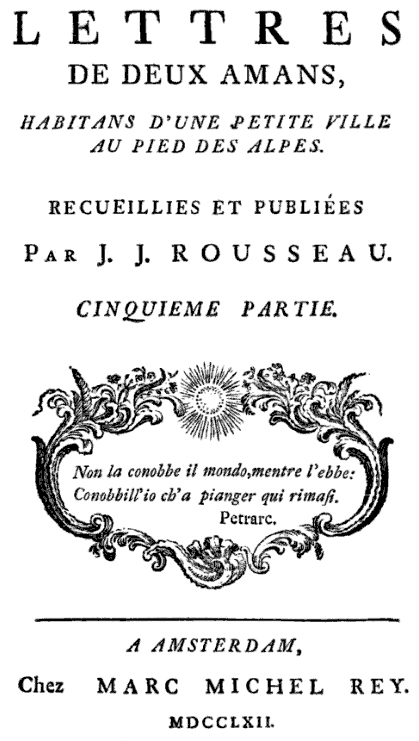 Title page Julie, or the New Heloise by Jean-Jacques Rousseau ((1712-1778)